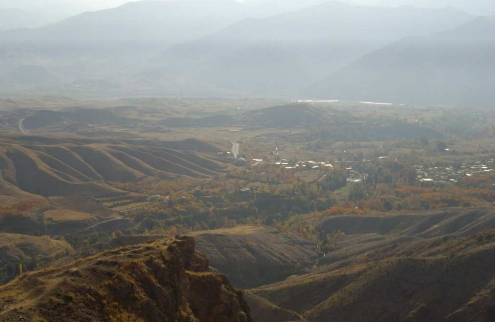 Lambsar Castle, view of watchtower, Alamut, Iran